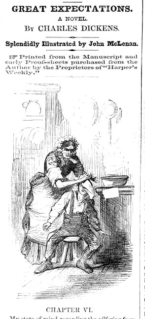 Great Expectations, Mrs Joe's roughly washes and dries Pip's face, by John McLenan.